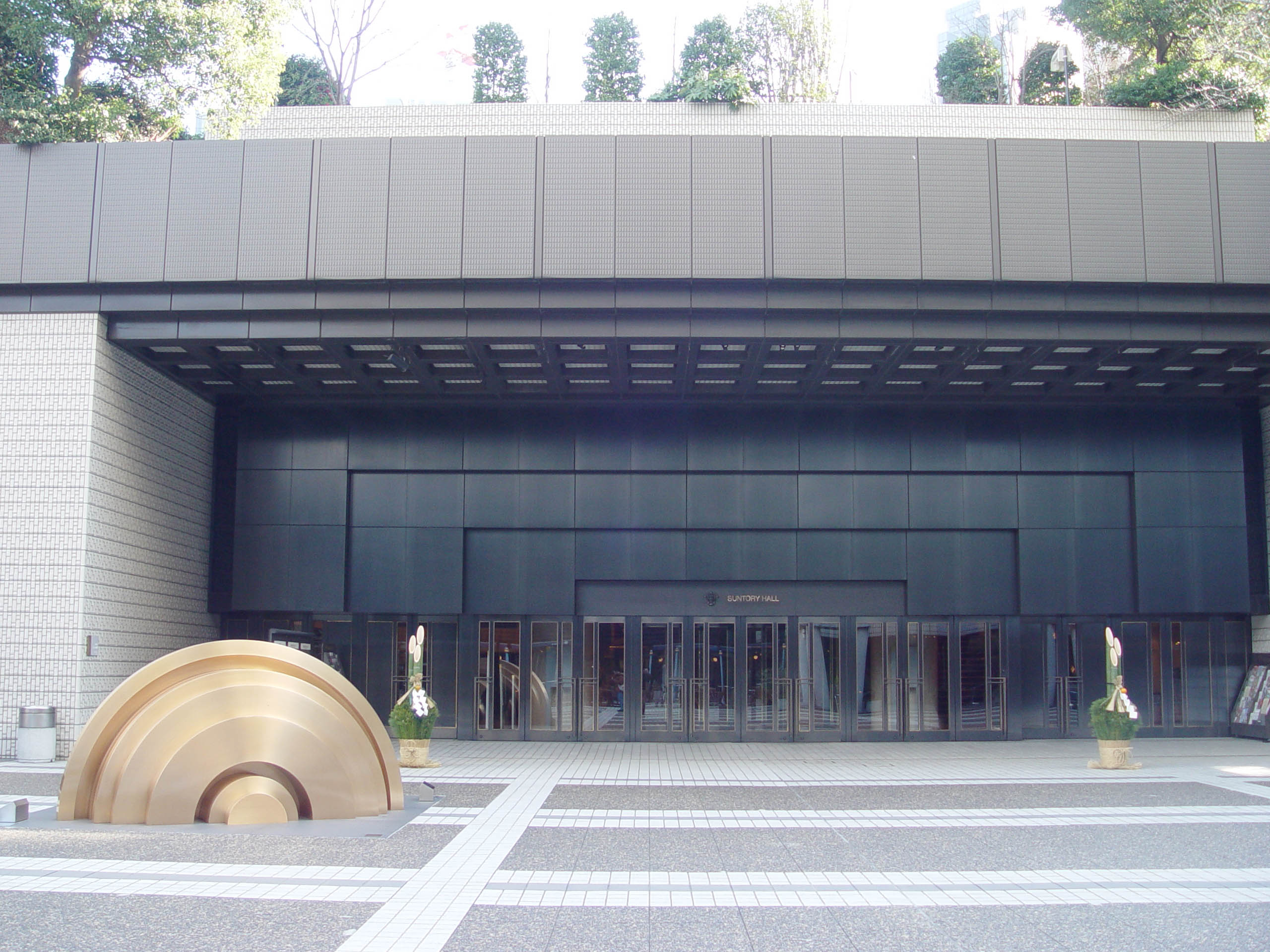 Suntory Hall, Tokyo, Japan サントリーホール